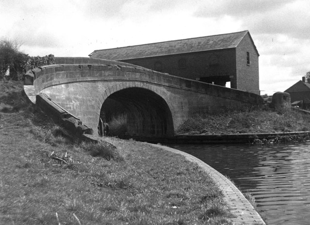 Wappenshall Junction, Shrewsbury Canal This photograph, taken in 1964, shows the canal junction at which the Shrewsbury and Newport Canal, coming in from the right, joined the earlier Shrewsbury Canal, from left to forward. Remarkably the handsome warehouse building, as well as the bridge, survives in 2007. A trust exists whose object is the restoration of these canals.